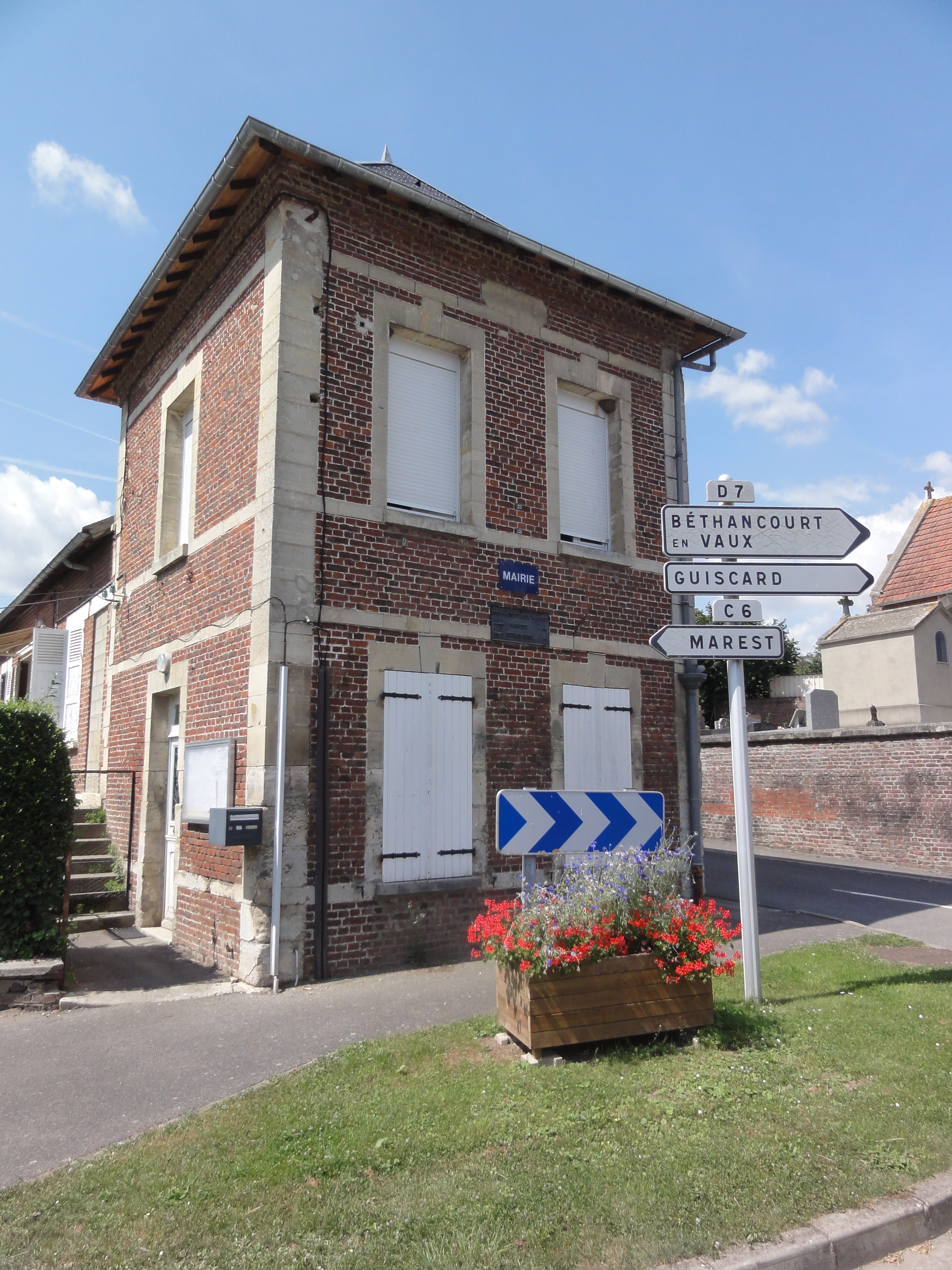 Neuflieux (Aisne) mairie